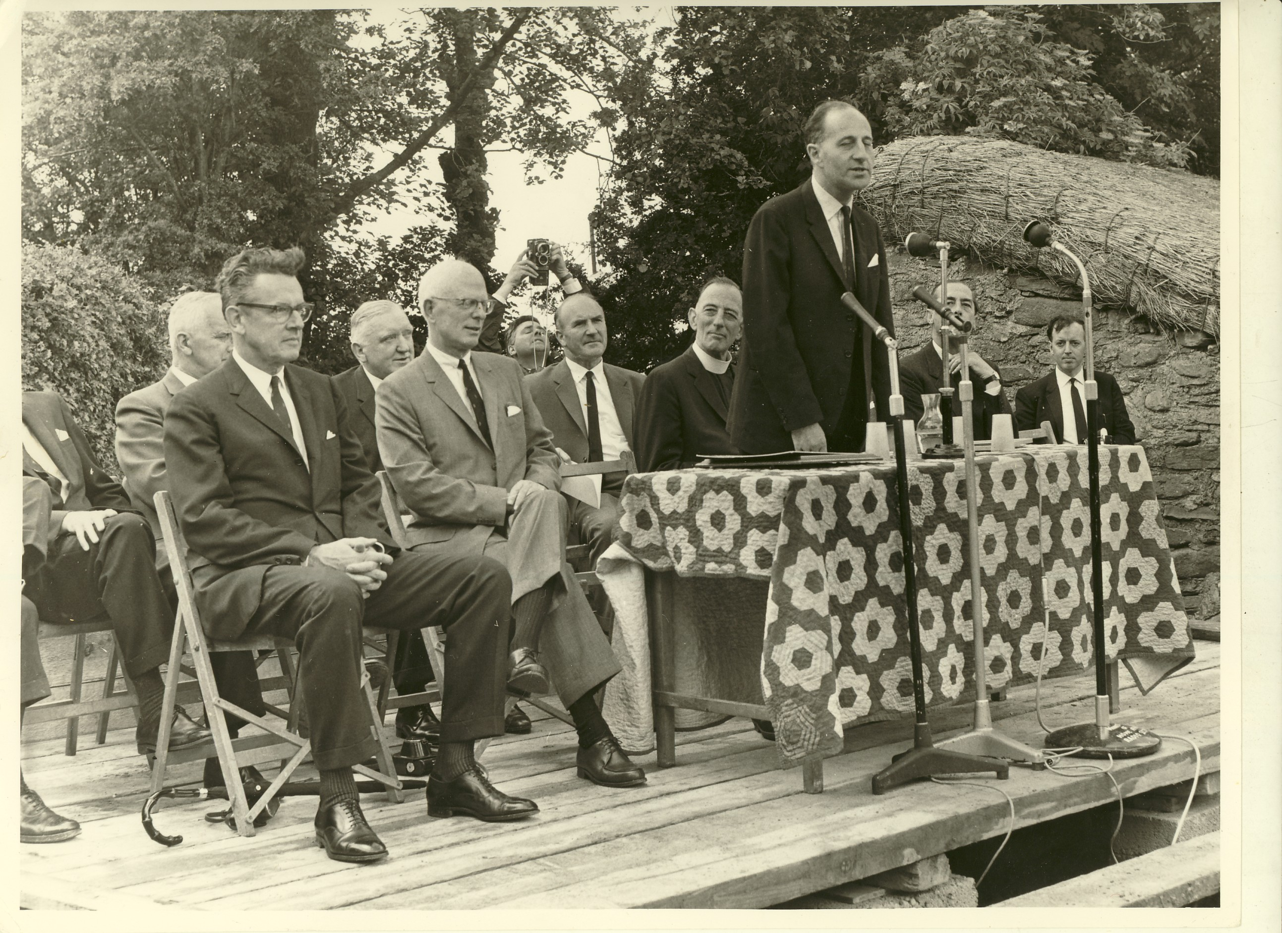 The platform party at the opening ceremony of The Wilson Homestead and Gray's Printing Shop. Speaking is the Prime Minister of Northern Ireland. Captain Rt. Hon. Terence O'Neill presided over the ceremony.